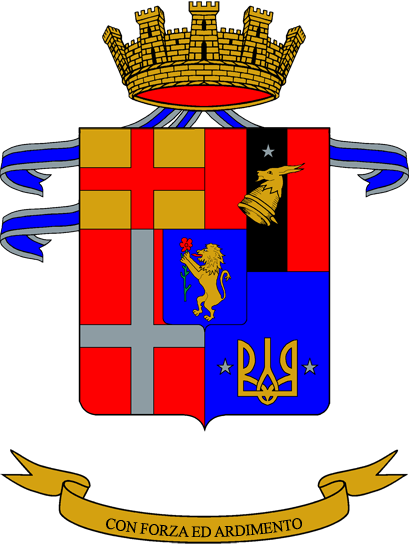 Coat of Arms of the 17° Anti-Air Artillery Regiment; Italian Army.